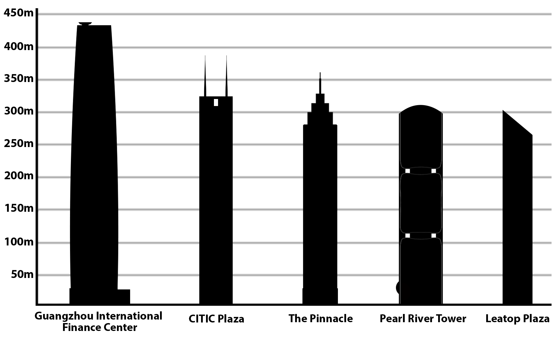 Tallest buildings in Guangzhou; Used data from .